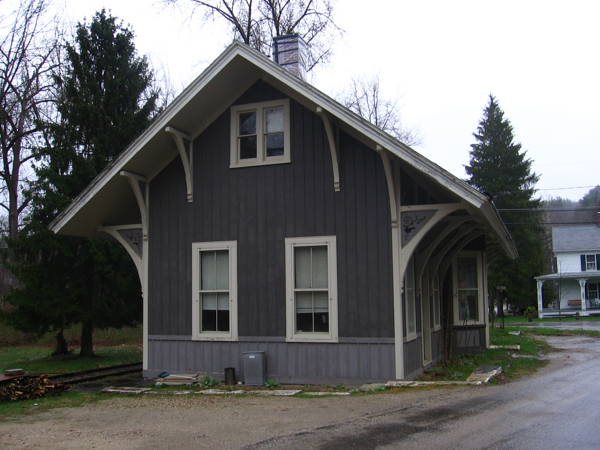 Cornwall Bridge station in Cornwall Bridge, Connecticut. NRHP Reference # 72001313.